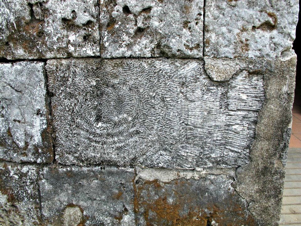 Coral stone masonry of the Sta. Monica Parish Church in Panay, Capiz